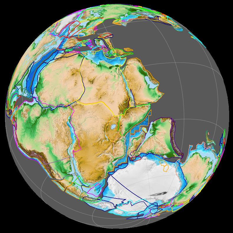 Opening of western Indian Ocean at 150 Ma: first oceanic crust between Madagascar and Africa.